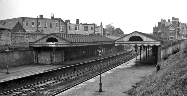 Branksome Station. View SW, towards Poole and Weymouth; ex-London & South Western, London etc. - Southampton - Bournemouth - Poole - Weymouth main line.